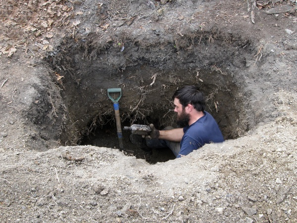 Excavating antique bottles and other items in a wood-lined privy (1860s-1920s).